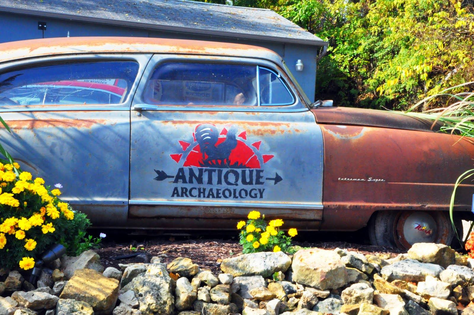 Nash Statesman Super 2-Door Sedan, ca. 1950